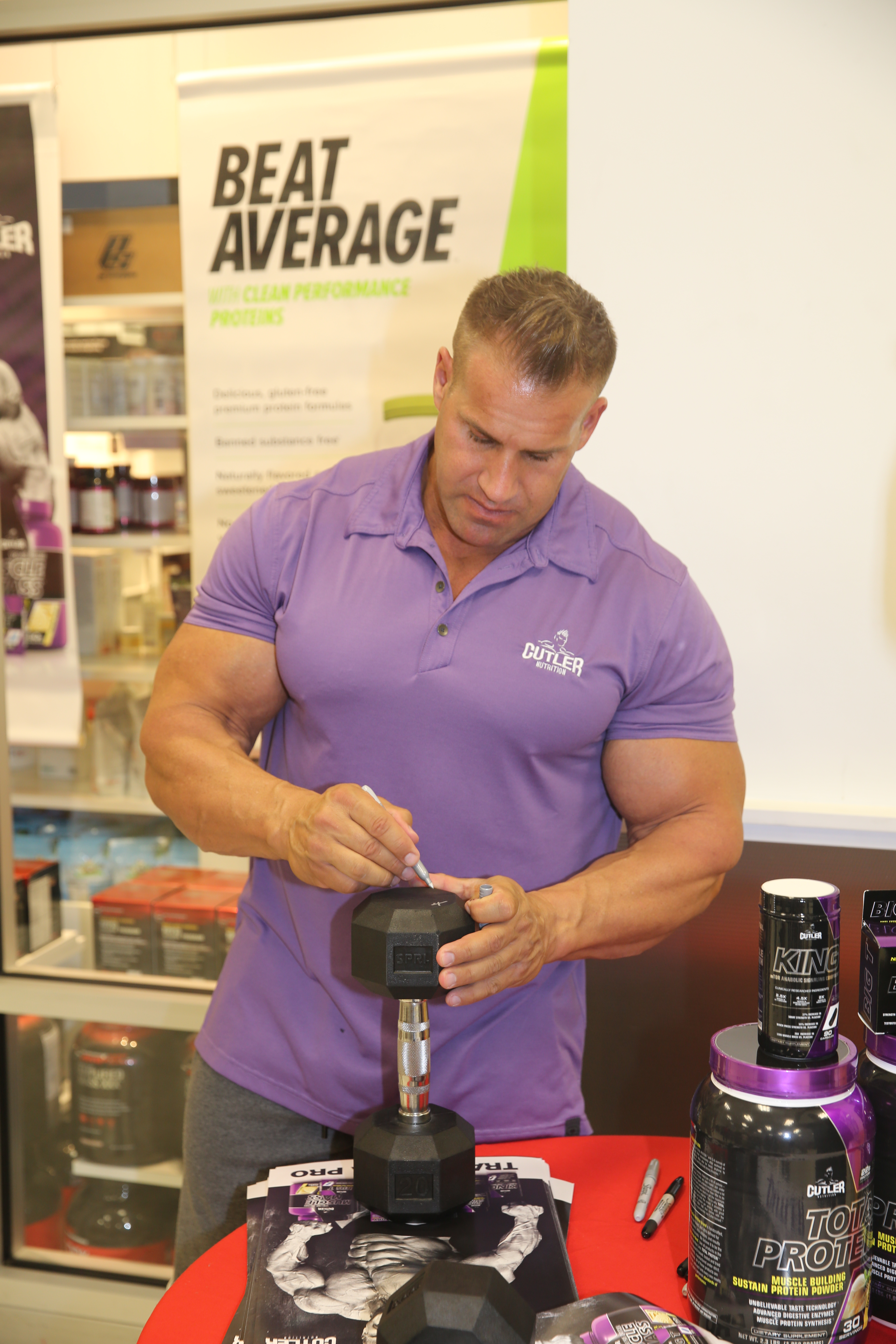 Twentynine palms, CA - Jay Cutler, professional bodybuilder, autographs a fan’s dumbbell at a promotional appearance at the GNC in the Main Exchange, Aug. 28, 2014.